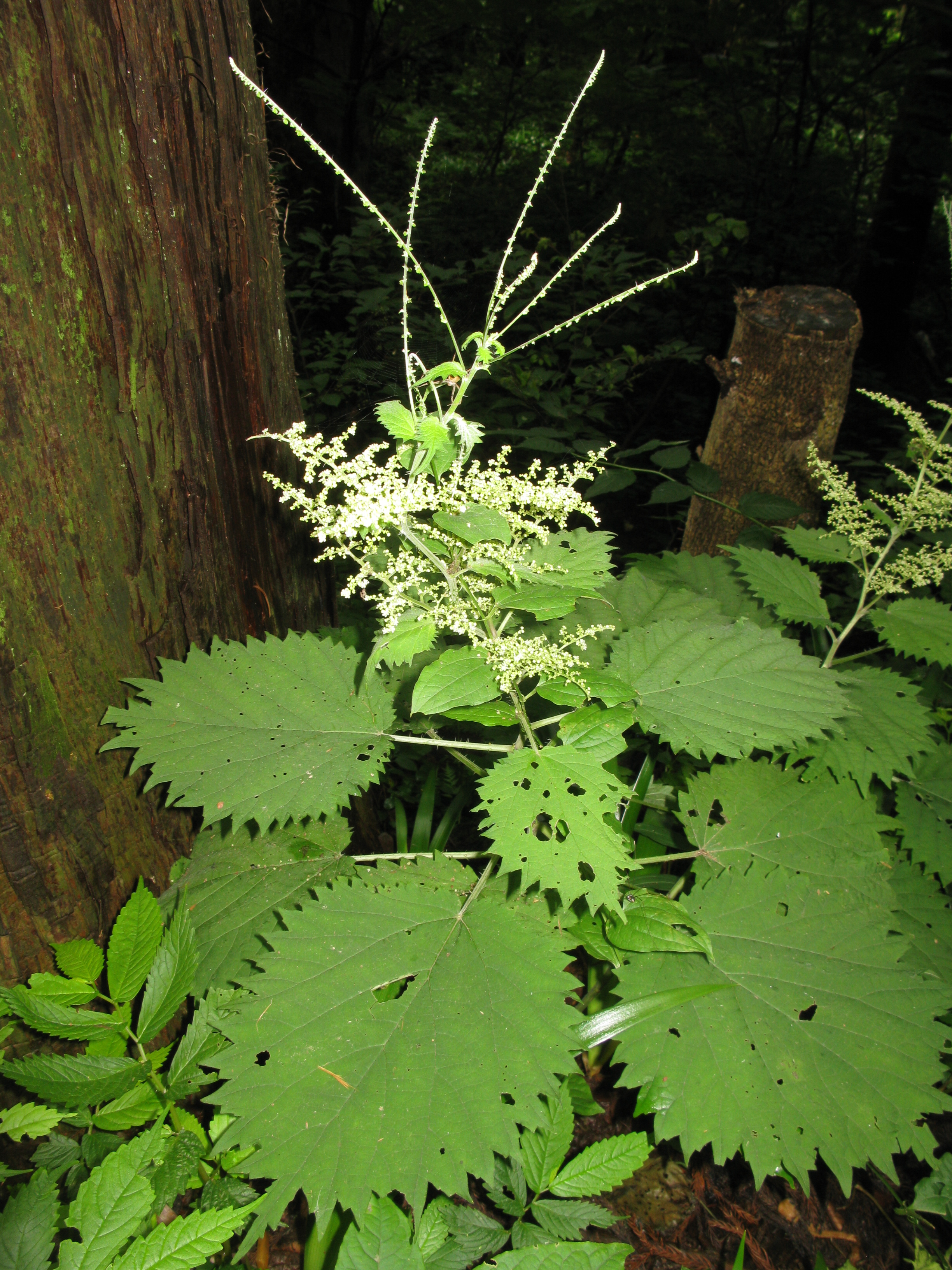 Laportea cuspidata, Aizu area, Fukushima pref., Japan